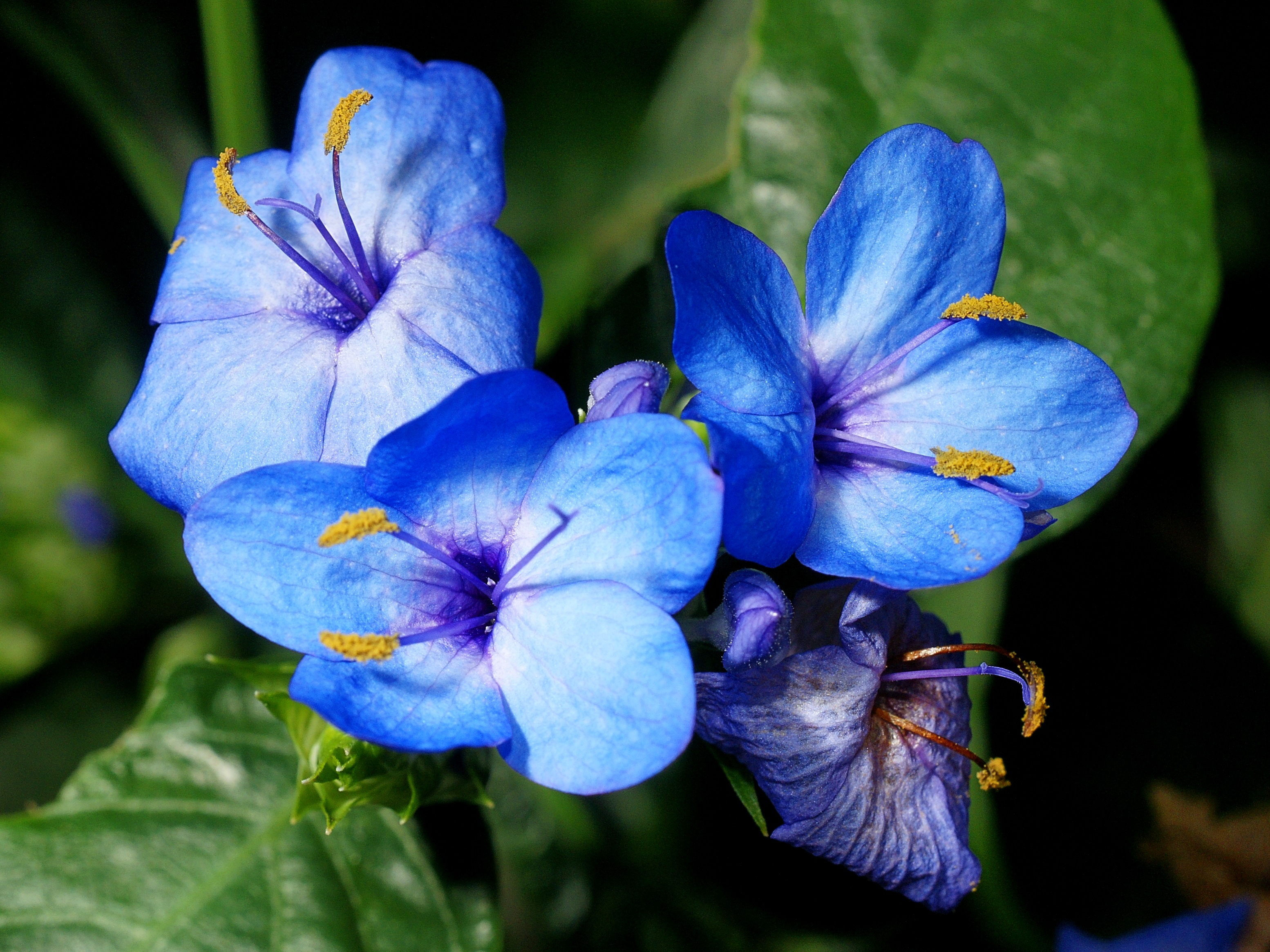 Flowers of Blue Sage (Eranthemum pulchellum)